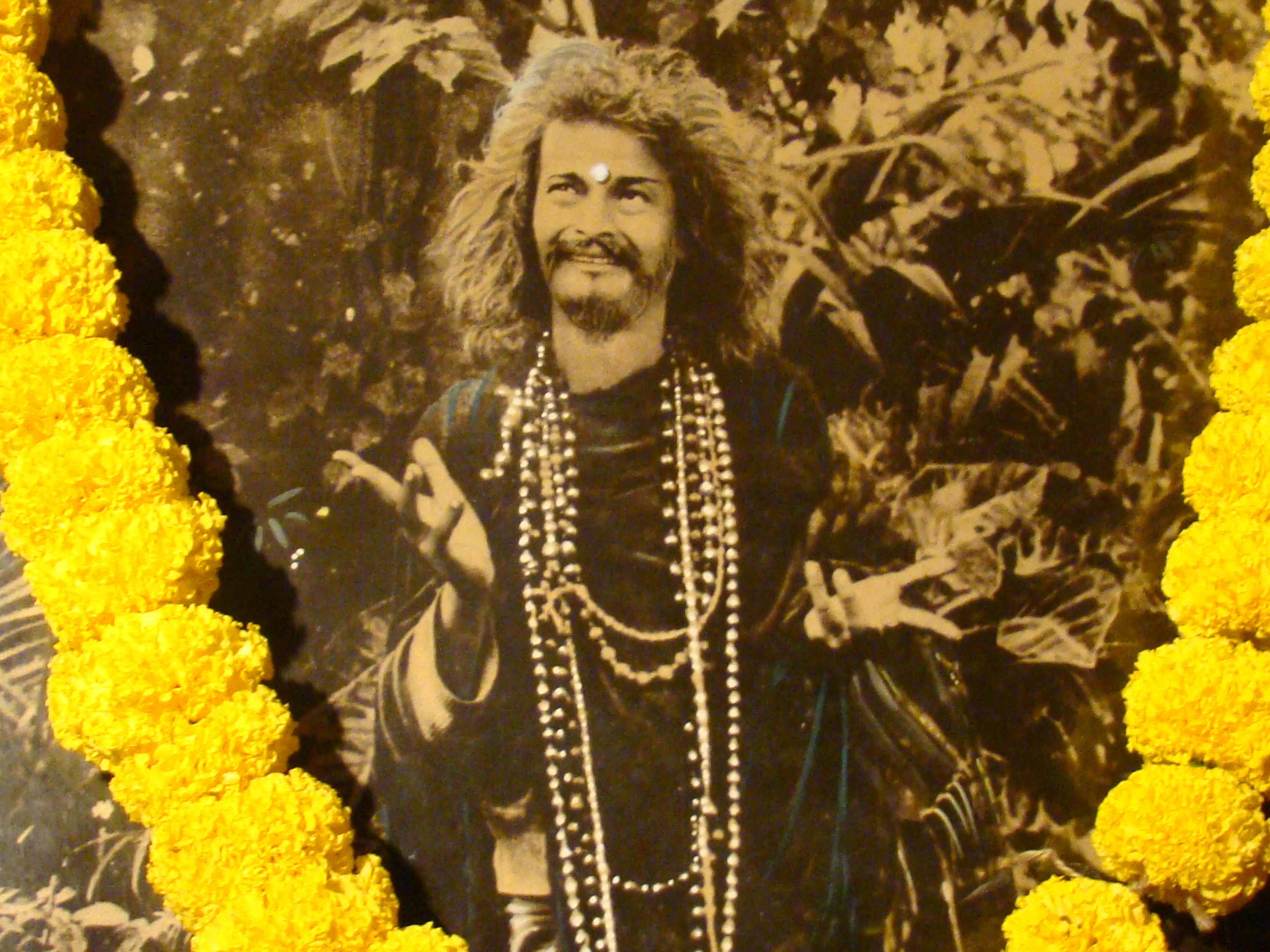 A picture of the saint-composer Bhaba Pagla (Amta, 1902 - Kalna, 1984).